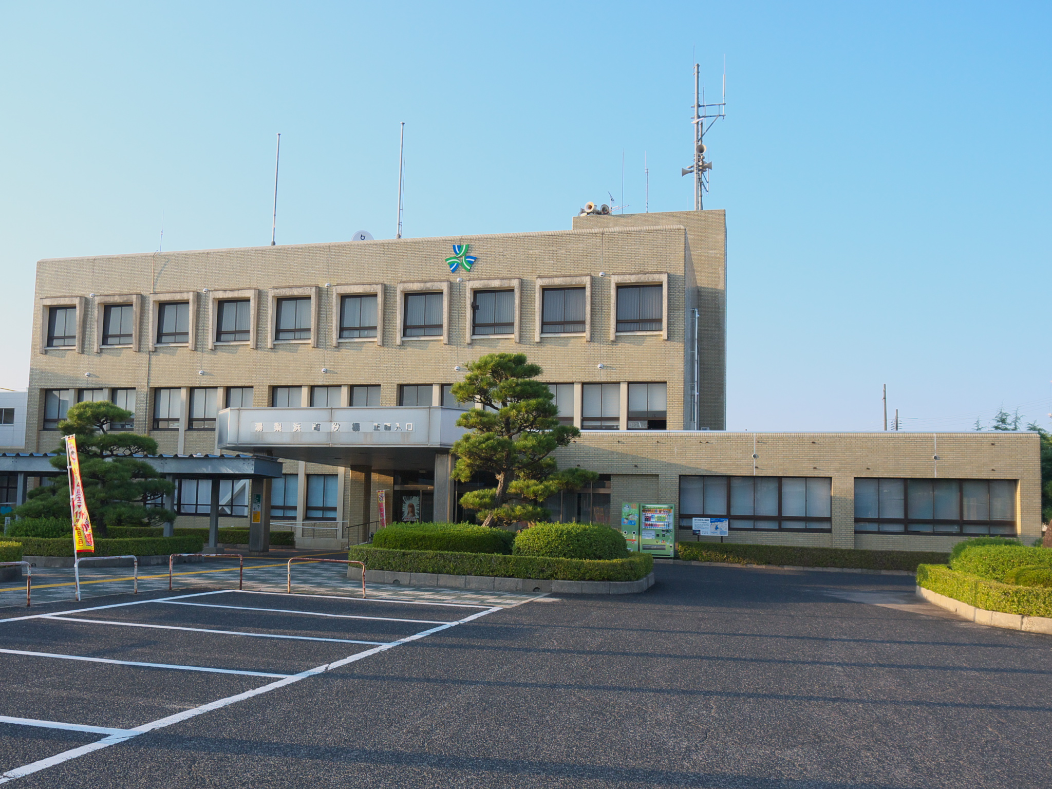 Yurihama town office (Former Hawai town office)